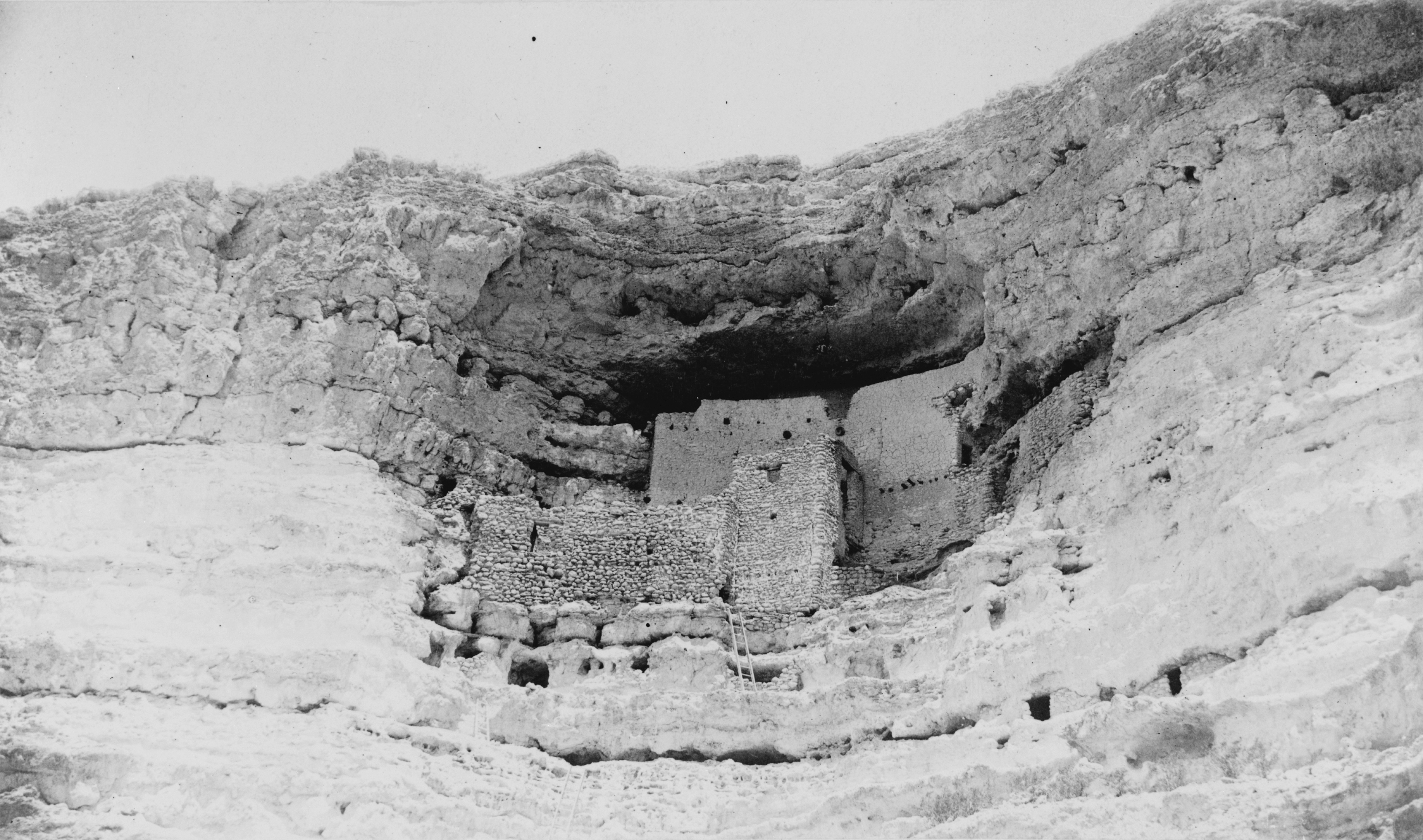 Montezuma's Palace, Beaver Creek, 3 miles north-east of Fort Verde, Arizona, showing lines of cave-dwellings in the face of the same cliff